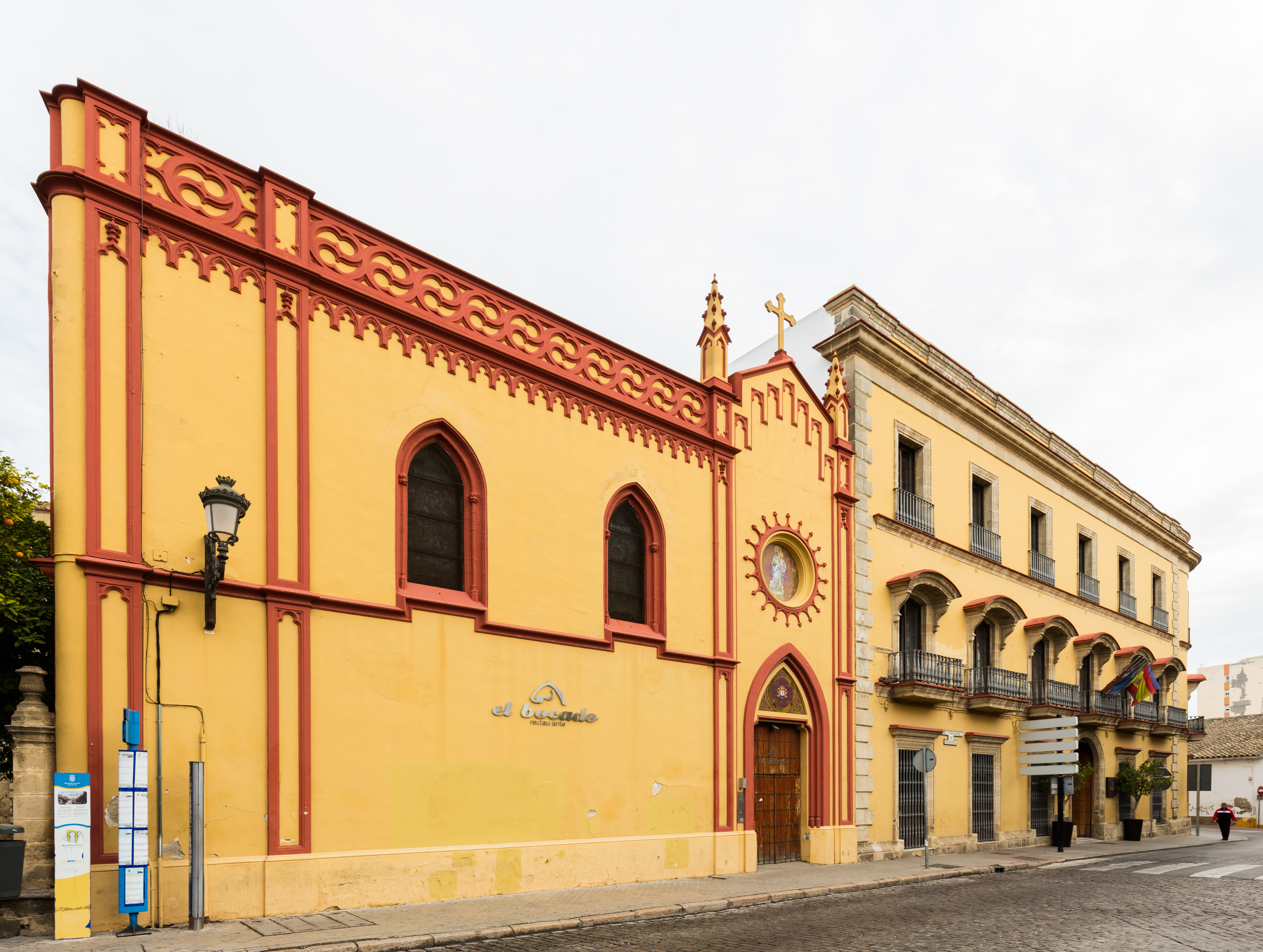 Former convent of Siervas de María, Jerez de la Frontera, Spain.